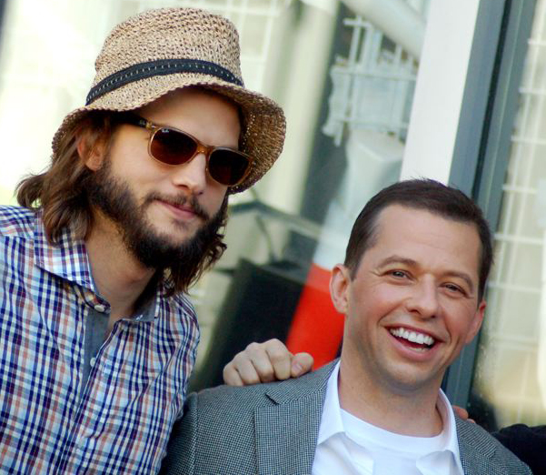 Ashton Kutcher and Jon Cryer at a ceremony for Cryer to receive a star on the Hollywood Walk of Fame in September 2011.